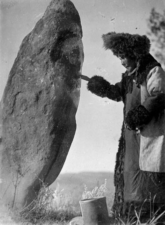 The ritual feeding of Ulug Khurtu-yakh tas idol; the photo may have been taken in the 1930s